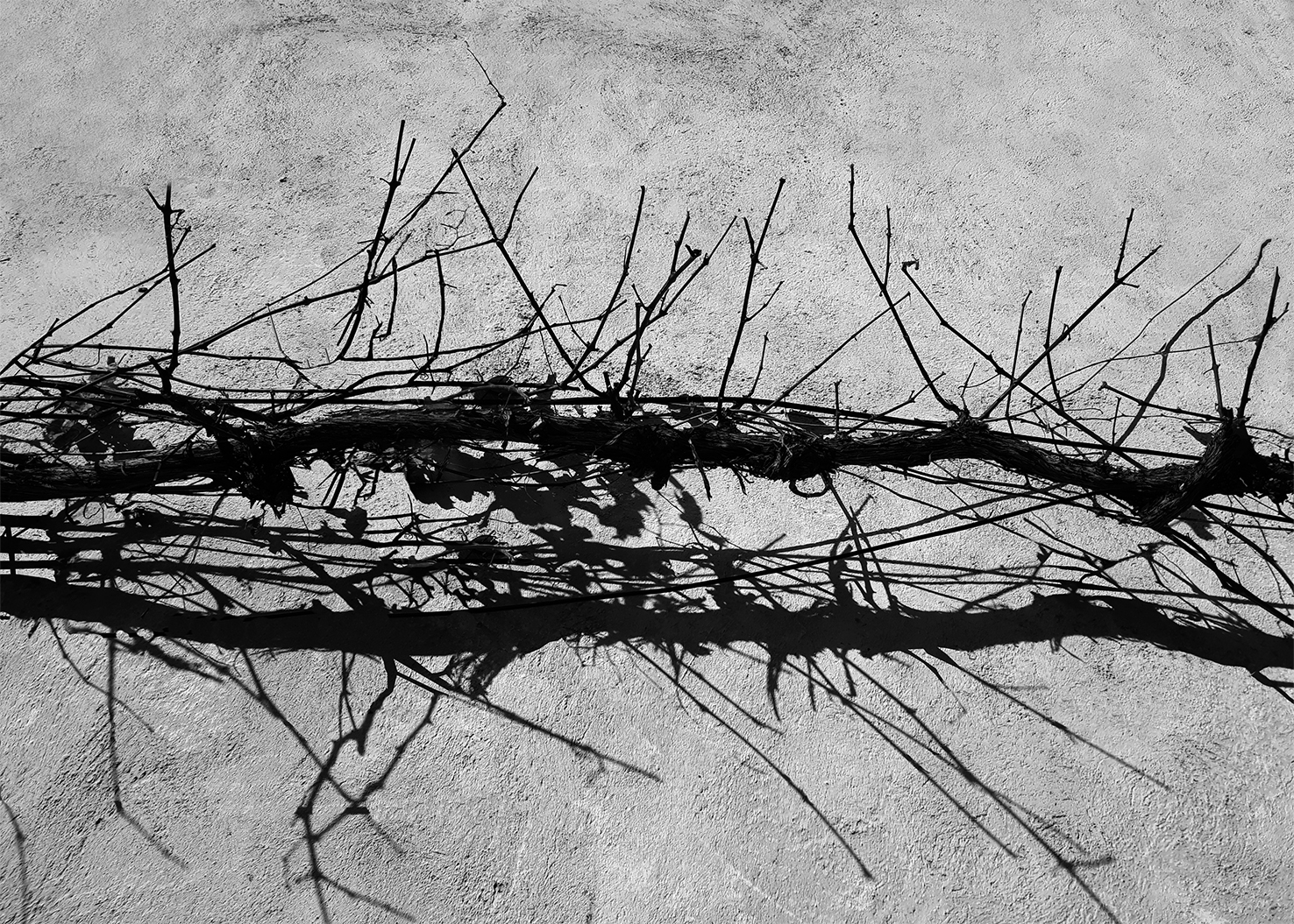 lithography, primark, original artwork